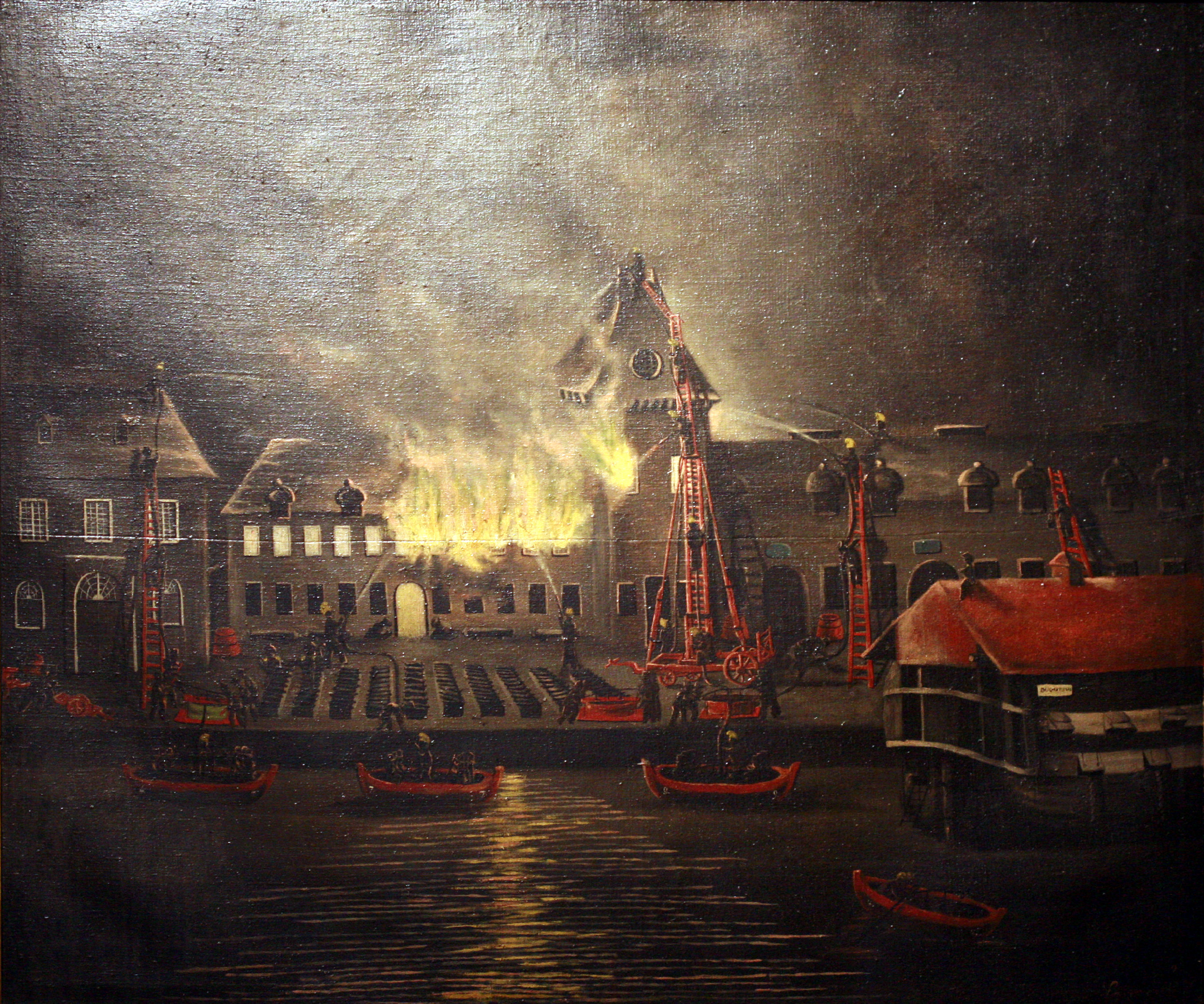 Incendie de la salle d'armes à Brest le 25 janvier 1832 Anonymous, c. 1832 On display at Brest naval museum, accession number MnM 9 OA 236